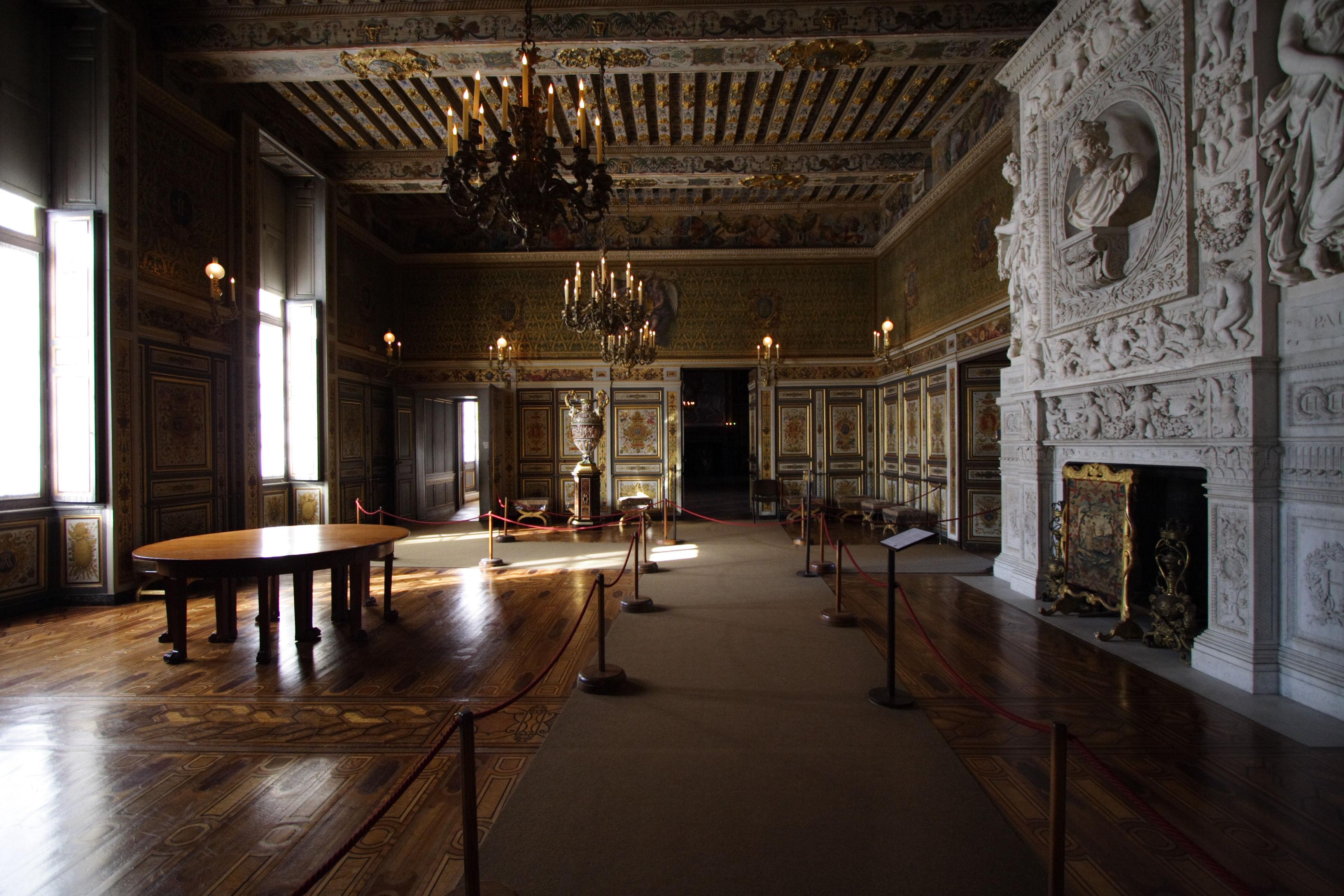 The room of the guards in the Palace of Fontainebleau